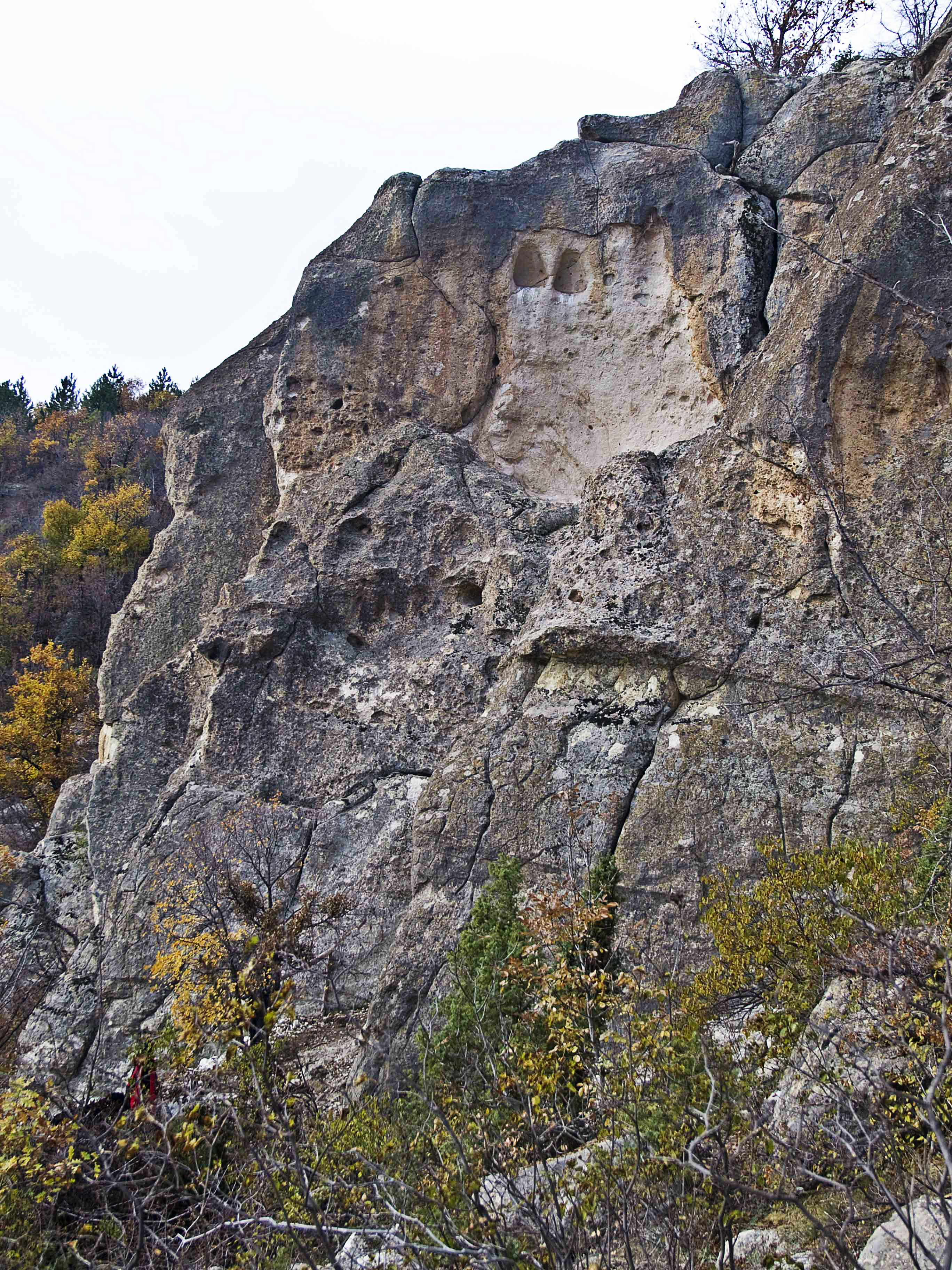 Utrobat nenkovo entrance